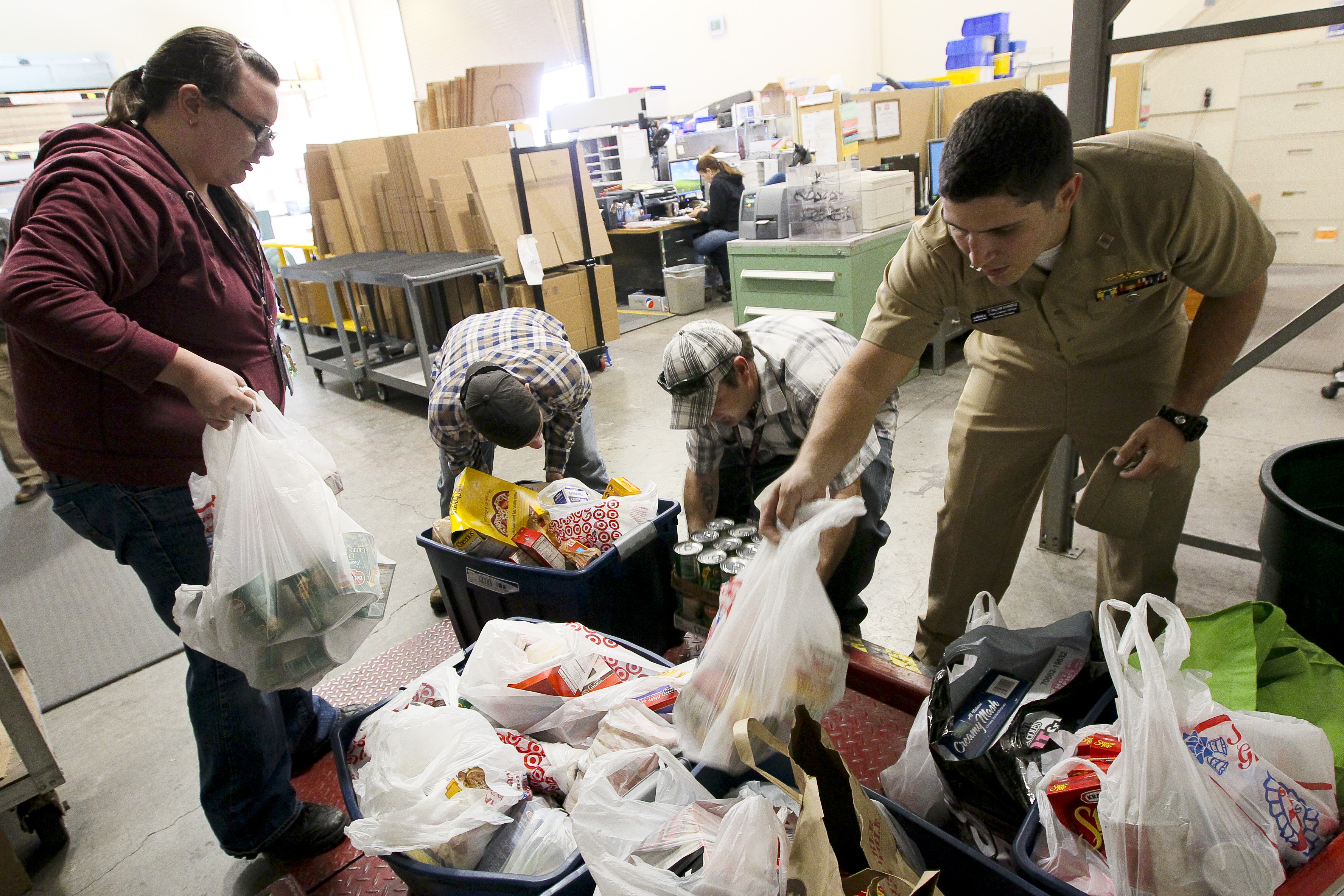 NORCO, Calif. (Nov. 23, 2011) Amanda Stewart, left, Chris Harris and Will Perdue help Lt. William Schindele, the Fleet Liaison Officer at Naval Surface Warfare Center (NSWC), Corona Division, weigh Thanksgiving food drive donations before delivery to the Corona-Norco Settlement House. NSWC Corona workforce collected 500 pounds of Thanksgiving food items for the local charity. (U.S. Navy photo by Greg Vojtko/Released)